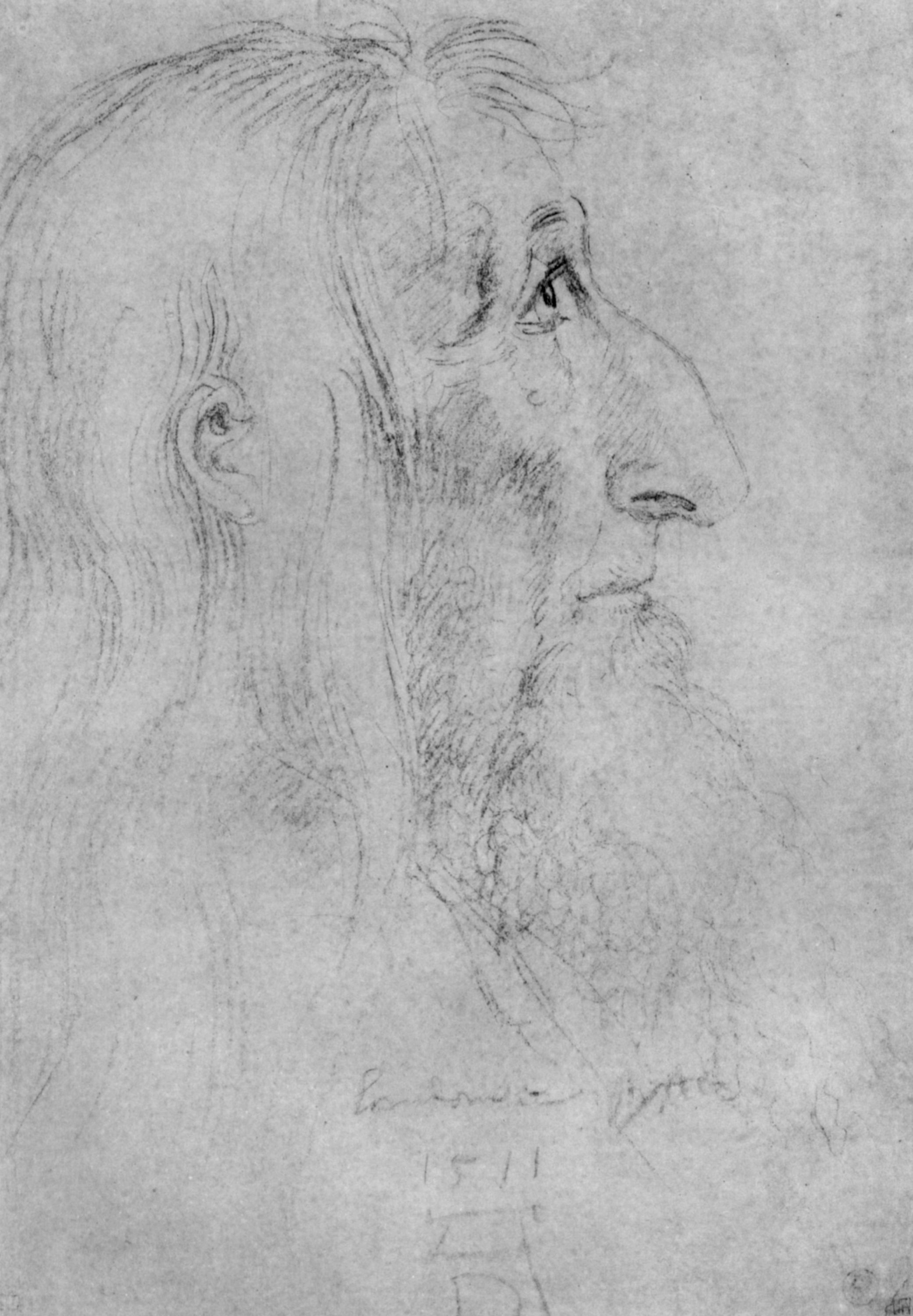 Portrait of Matthäus Landauer, drawn by Albrecht Dürer